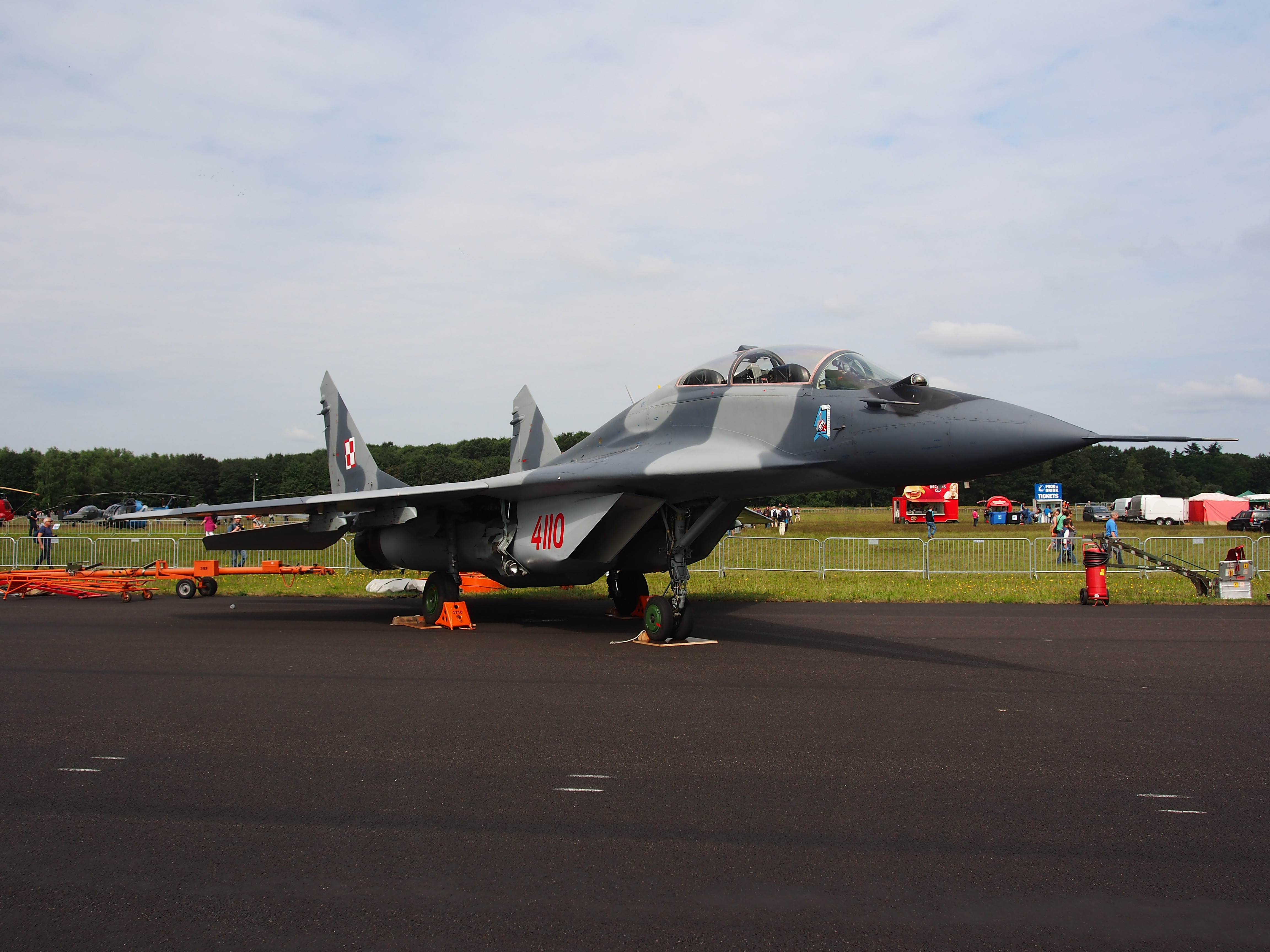 Photographed at Gilze-Rijen Air Base ( IATA=GLZ, ICAO=EHGR), The Netherlands.